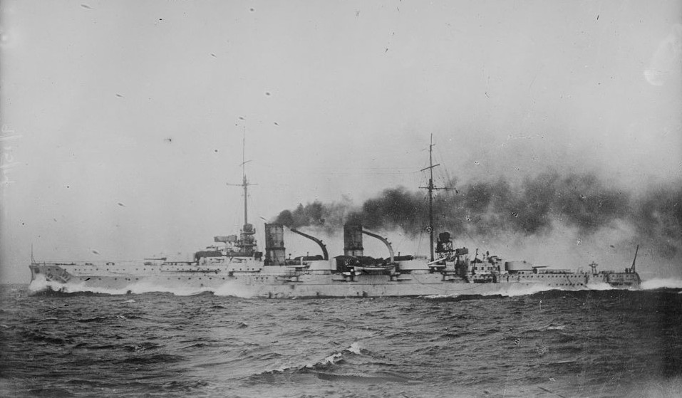 The German armored cruiser SMS Blücher.